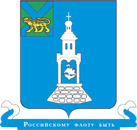 Fokino (Primorsky kray), coat of atms